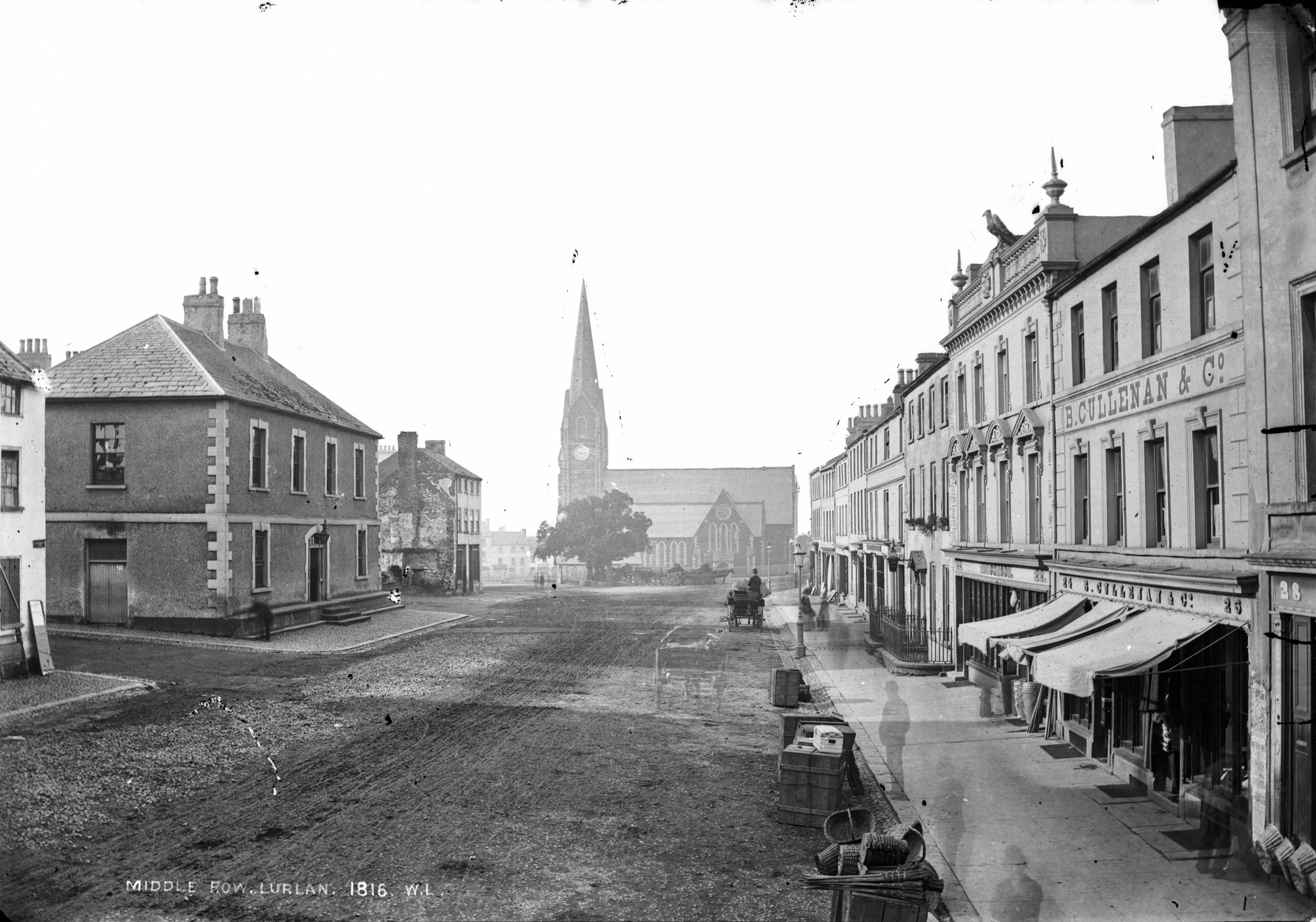 This photo was taken in the late 19th century, probably by Robert French, chief photographer of William Lawrence Photographic Studios of Dublin. It's especially rich in beautiful ghostly figures, and if I'm reading the church clock correctly, this photo was taken at 10:15. G.W.V. Whitcroft's 1990 companion image was taken at 10:30 Compare this view of Lurgan with its companion photo taken by photographer G.W.V. Whitcroft (approximately 100 years later) as part of the Lawrence Photographic Project 1990/1991, where one thousand photographs from the Lawrence Collection in the National Library of Ireland were replicated a hundred years later by a team of volunteer photographers, thereby creating a record of the changing face of the selected locations all over Ireland. For further information on the Lawrence Photographic Project, read all about it on our NLI Blog. Niall McAuley has contributed this spectacular bird's eye view from Bing, and thanks to Niall's dating work (see his comments below), we can definitely say this photo was taken after 1865 and before 1896! Niall did some more work on dating and says: "Not conclusive, but the 1865 directory lists 4 businesses on Middle Row, the 1877 Lennon Wylie link lists two, and the 1880 Lurgan Ancestry link lists none. I think most of Middle Row was vacant/demolished in 1880. The buildings to the left look in poor shape here, you can see the outline of a demolished house on the gable of the farthest house. I think this photo is in the middle of the Town Commisioners efforts to get rid of Middle Row, maybe1879?" Date: Circa 1879 NLI Ref.: L_CAB_01816